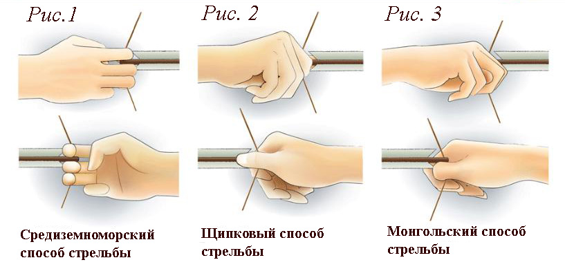 Kyudo, Archery, Yumi, Bow. Main methods of drawing bows. - russian version